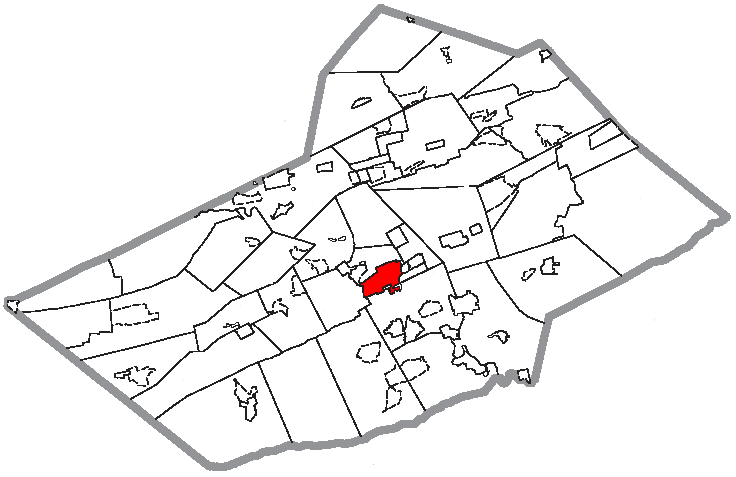 A map of Schuylkill County showing Pottsville, Pennsylvania highlighted on the map.